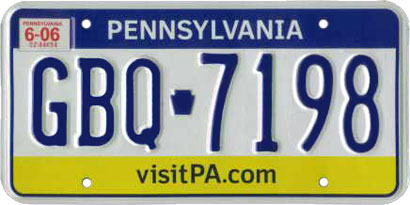 2006 Pennsylvania License plate